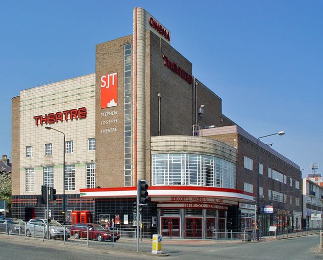 The Stephen Joseph Theatre, Scarborough The theatre is located directly opposite the Railway Station and close to the heart of the town. This view looks west from the start of the pedestrian precinct. For historical notes, click and for performances, click